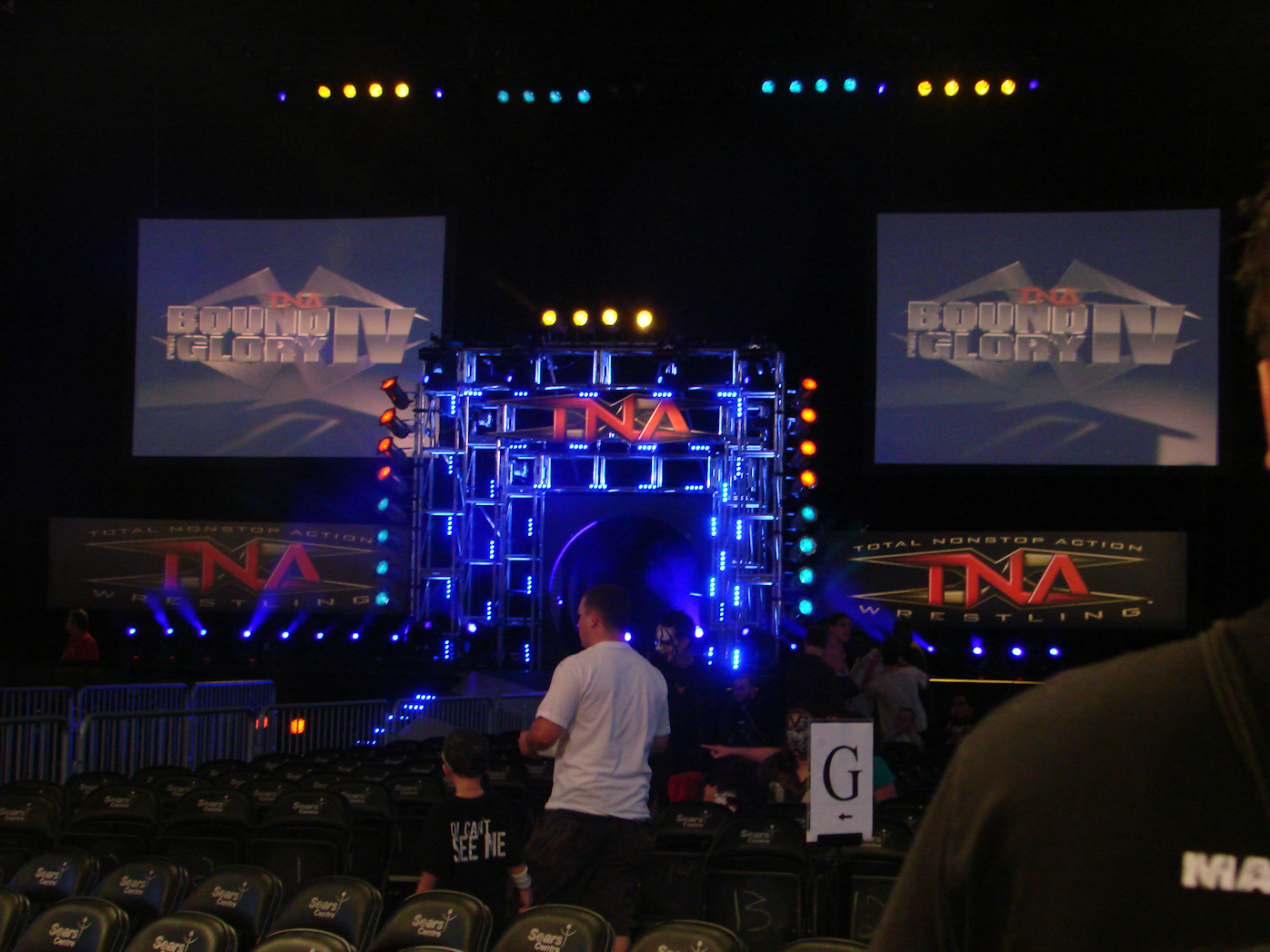 The TNA Bound for Glory IV set. Sears Centre; Hoffman Estates, Illinois. Taken by myself.